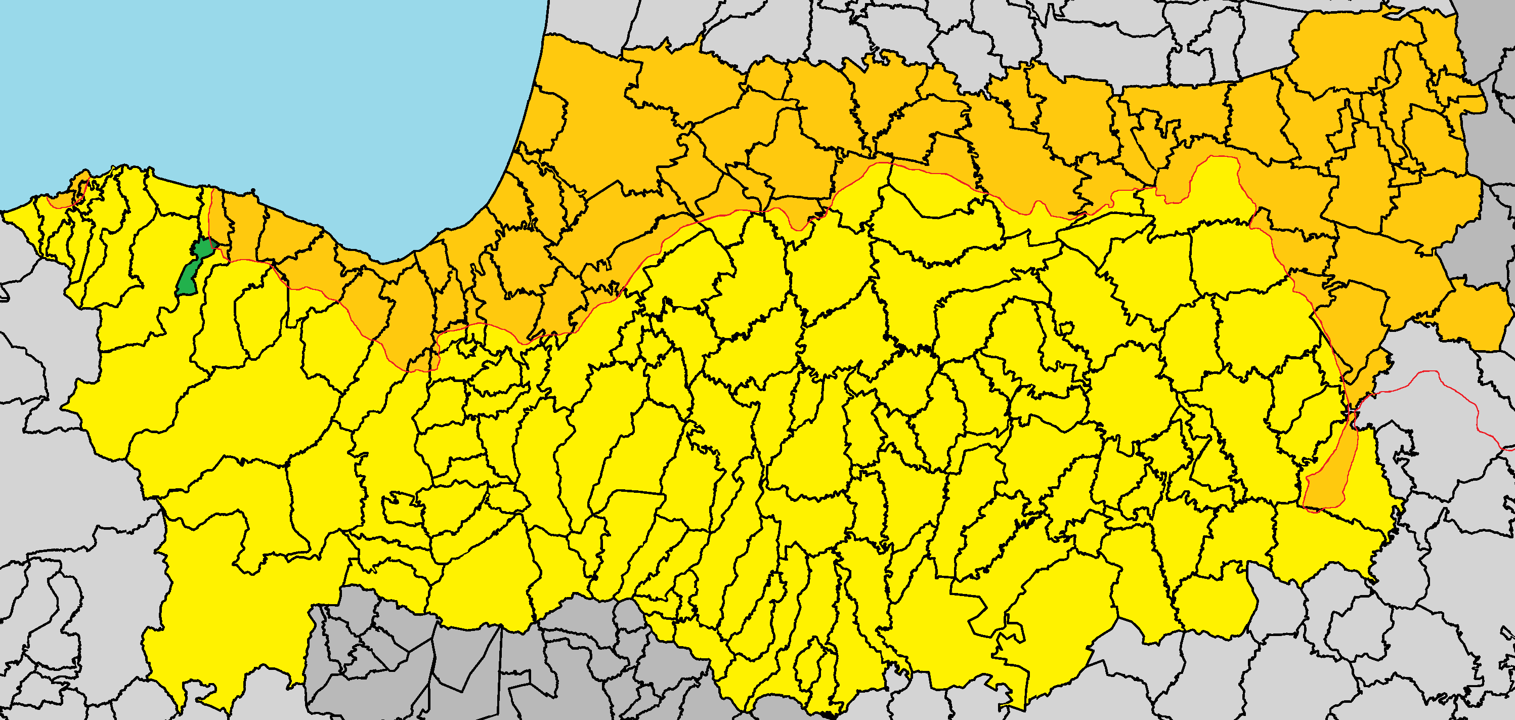 Agios Ioannis (Pyrgos) in Nicosia District.